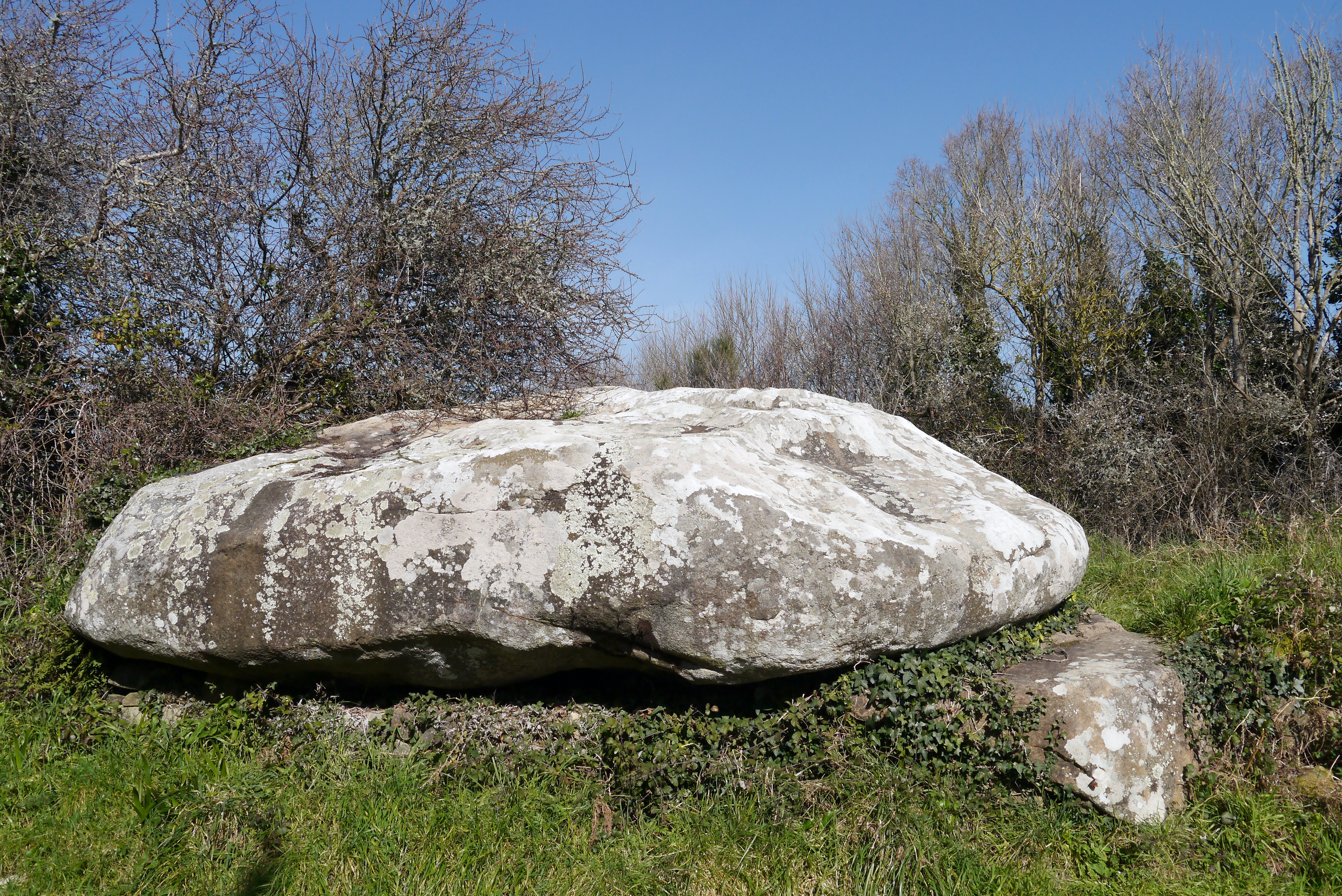 Locmariaquer, France. Dolmen de Kerlud.